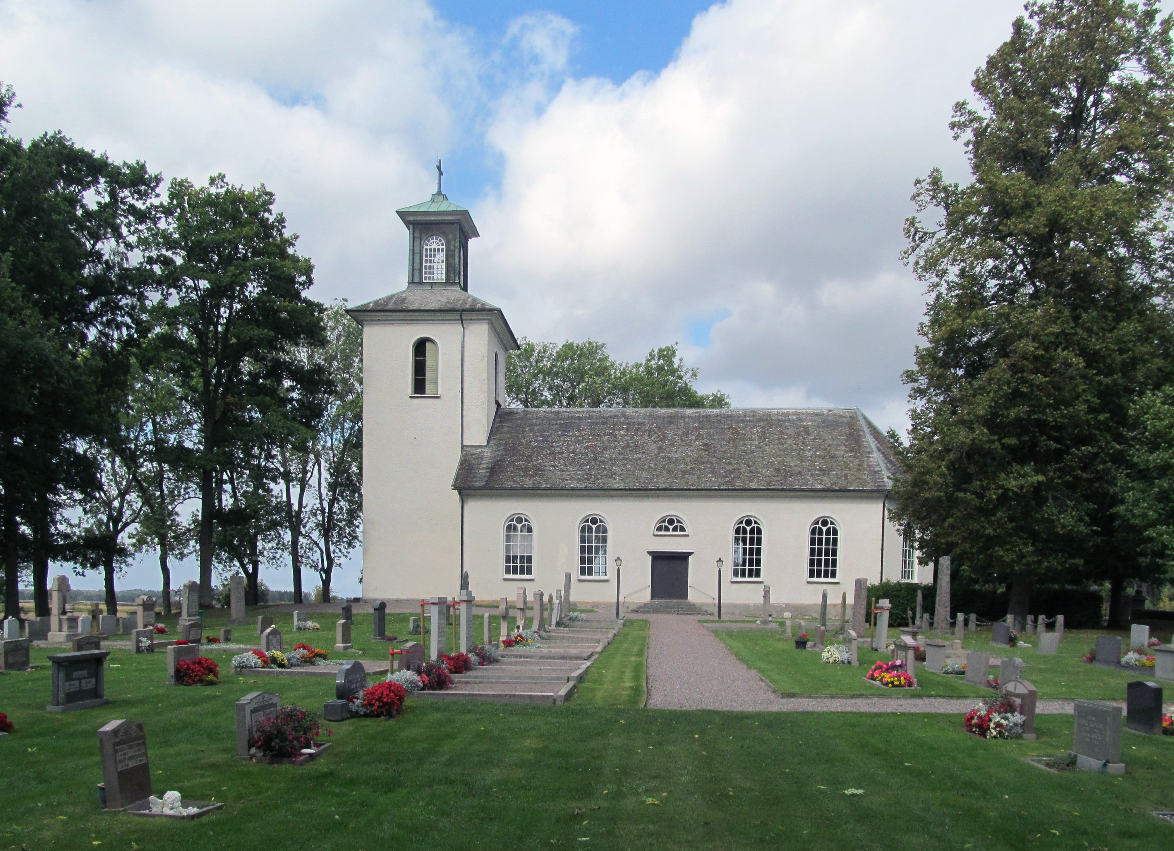 Uvered church